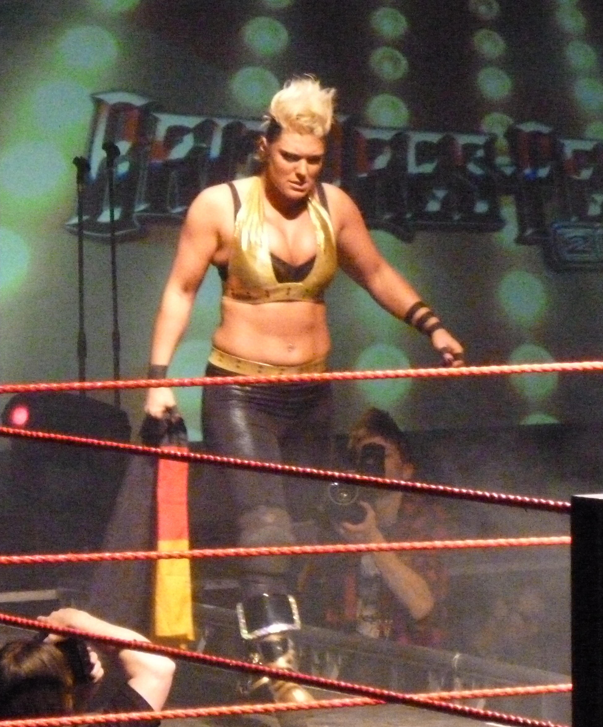 Independent wrestler Alpha Female entering the arena at BritWresFest 2012